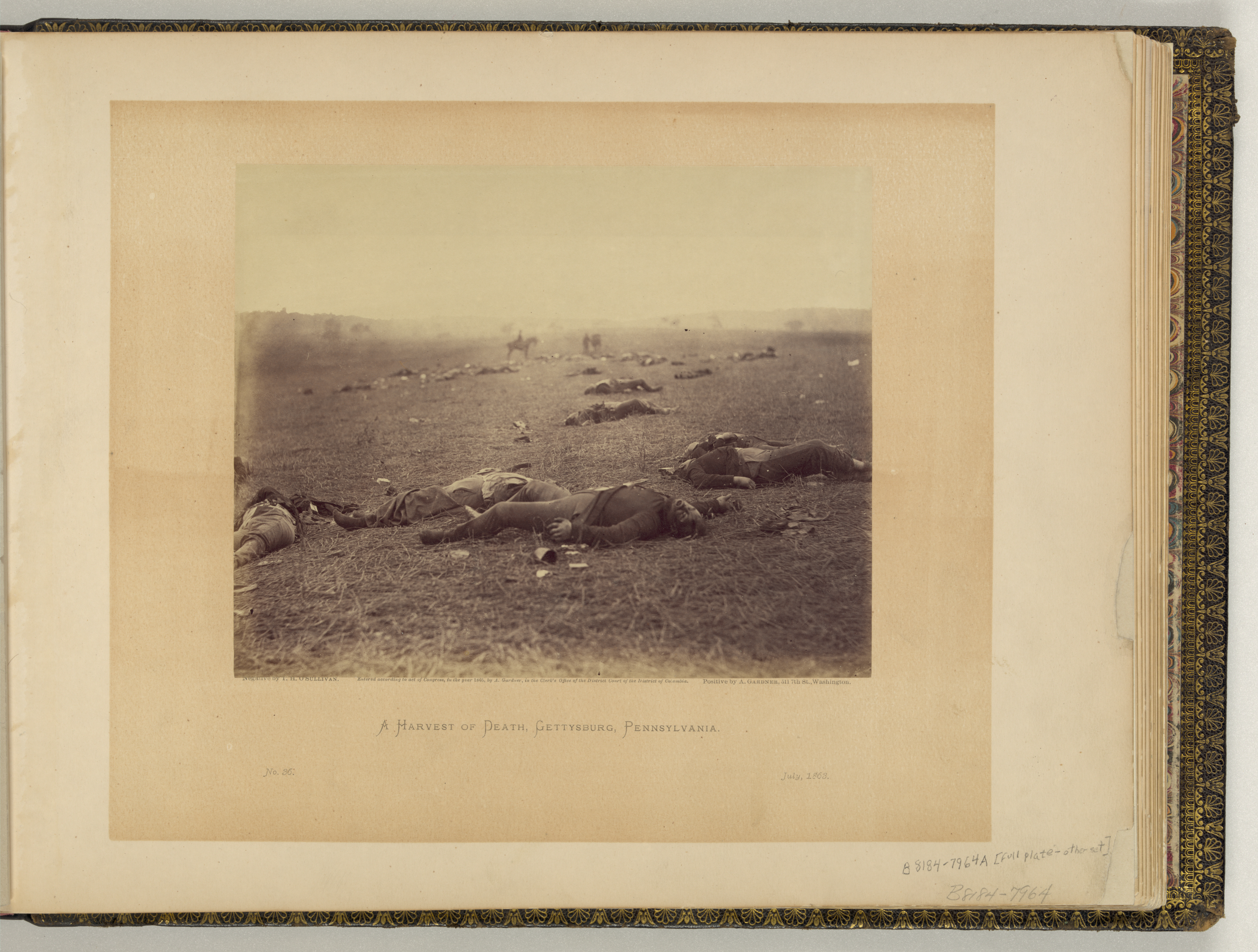 A harvest of death, Gettysburg, PA. Photograph showing dead soldiers on the battlefield. Negative by Timothy H. O'Sullivan. Positive by Alexander Gardner. Albumen silver print. 7 x 8 11/16 inches.